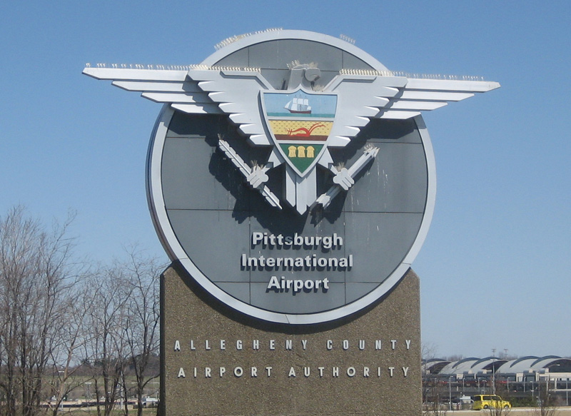 This is a picture of the Eagle statue as you enter the terminal. I took this one day coming into work.